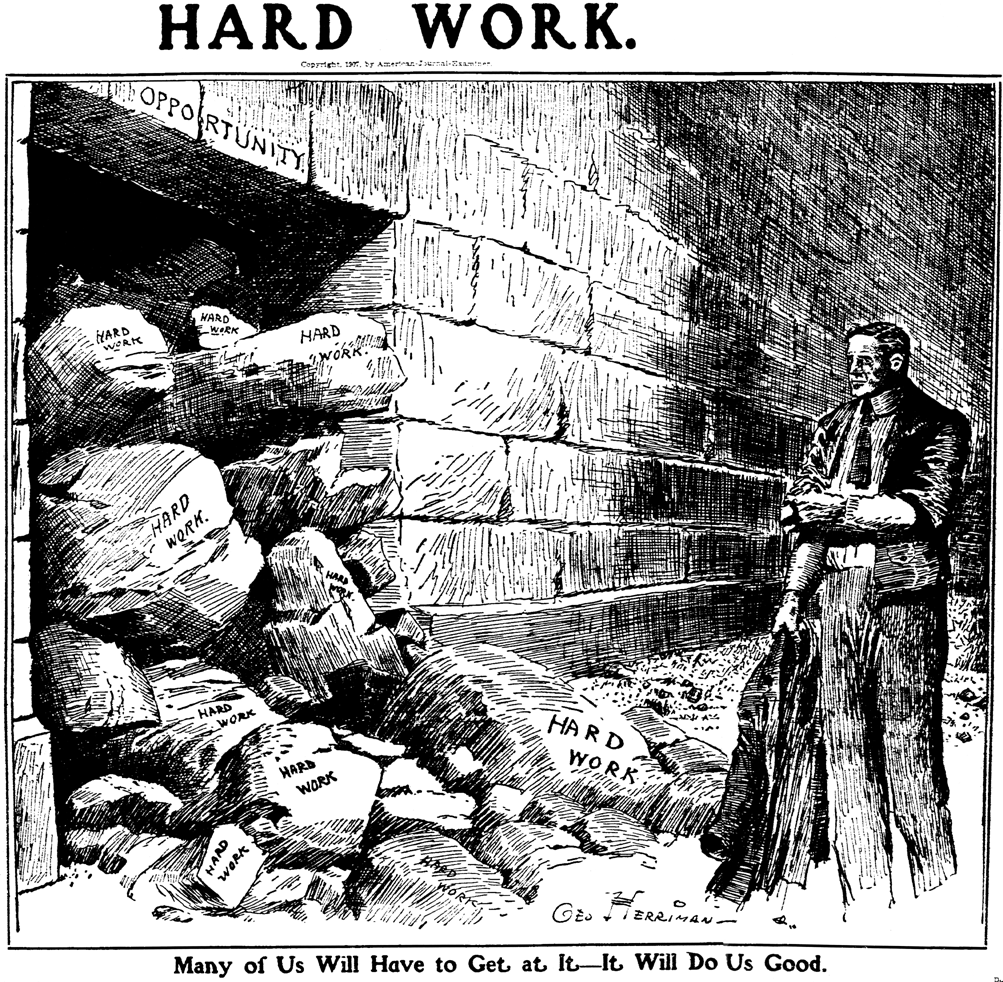 "Hard Work", editorial cartoon by George Herriman from Sunday, November 24 1907 (LA Examiner)